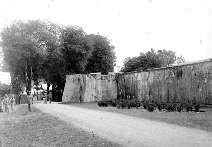 Fort New Amsterdam